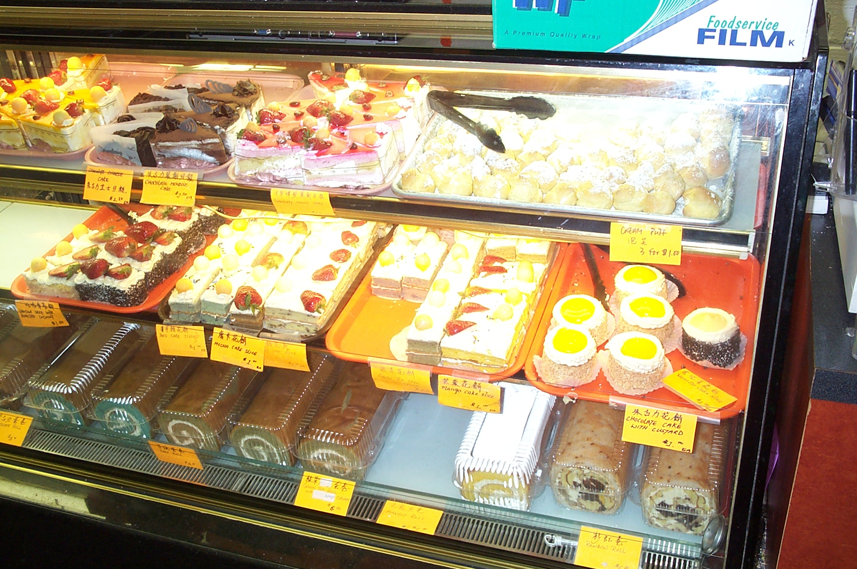 Western-style section of a Chinese pastry